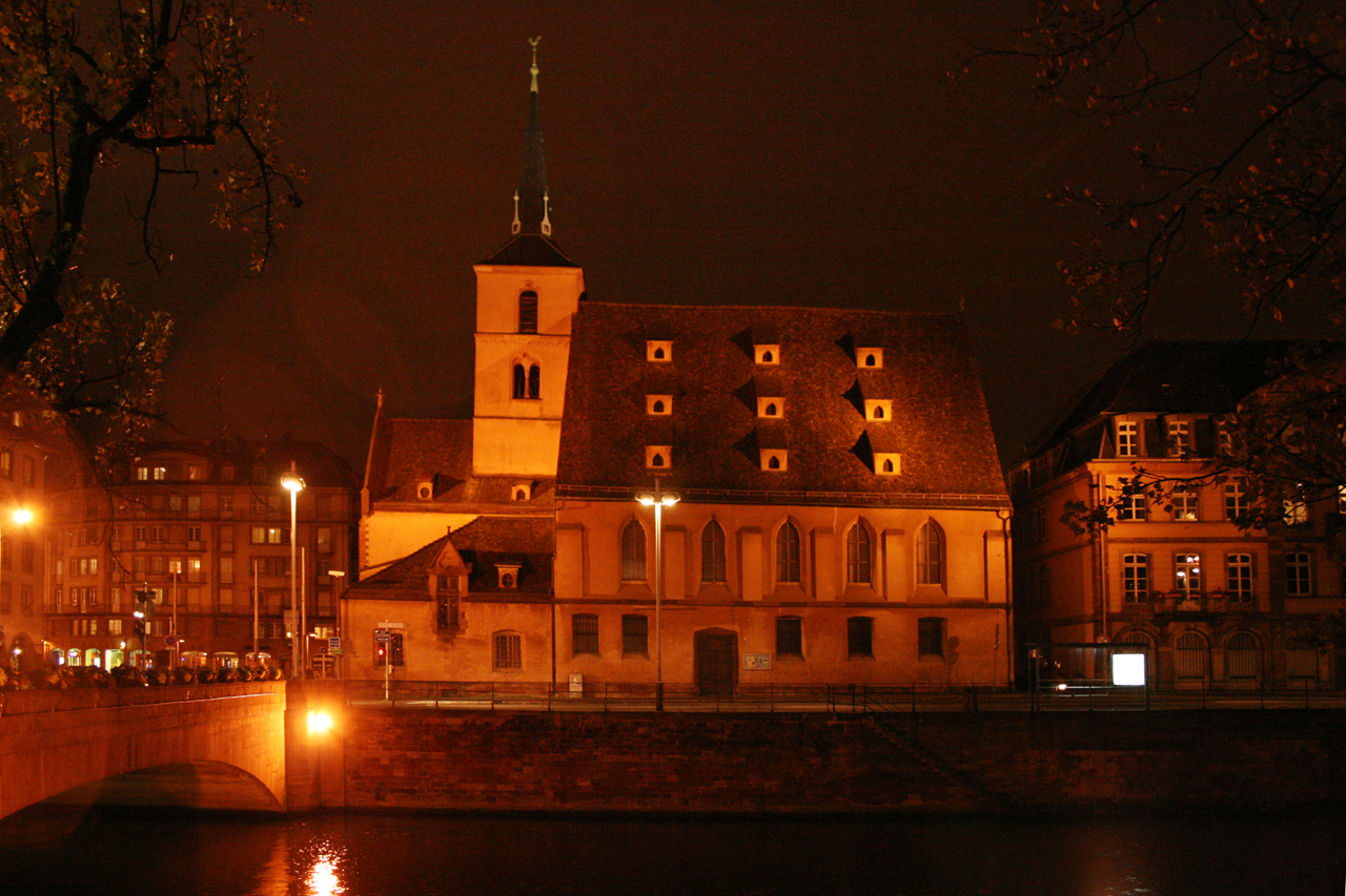 Strasbourg - Eglise Saint-Nicolas